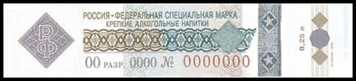 Russia. Federal excise stamp, 2003